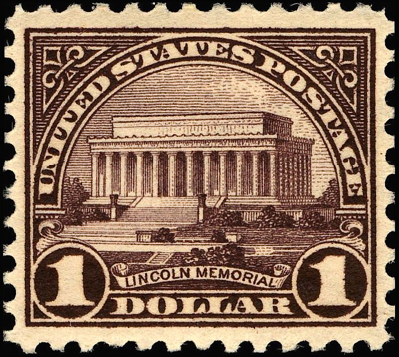 US Postage stamp, Lincoln Memorial issue, 1922, 1-dollar, Violet-black